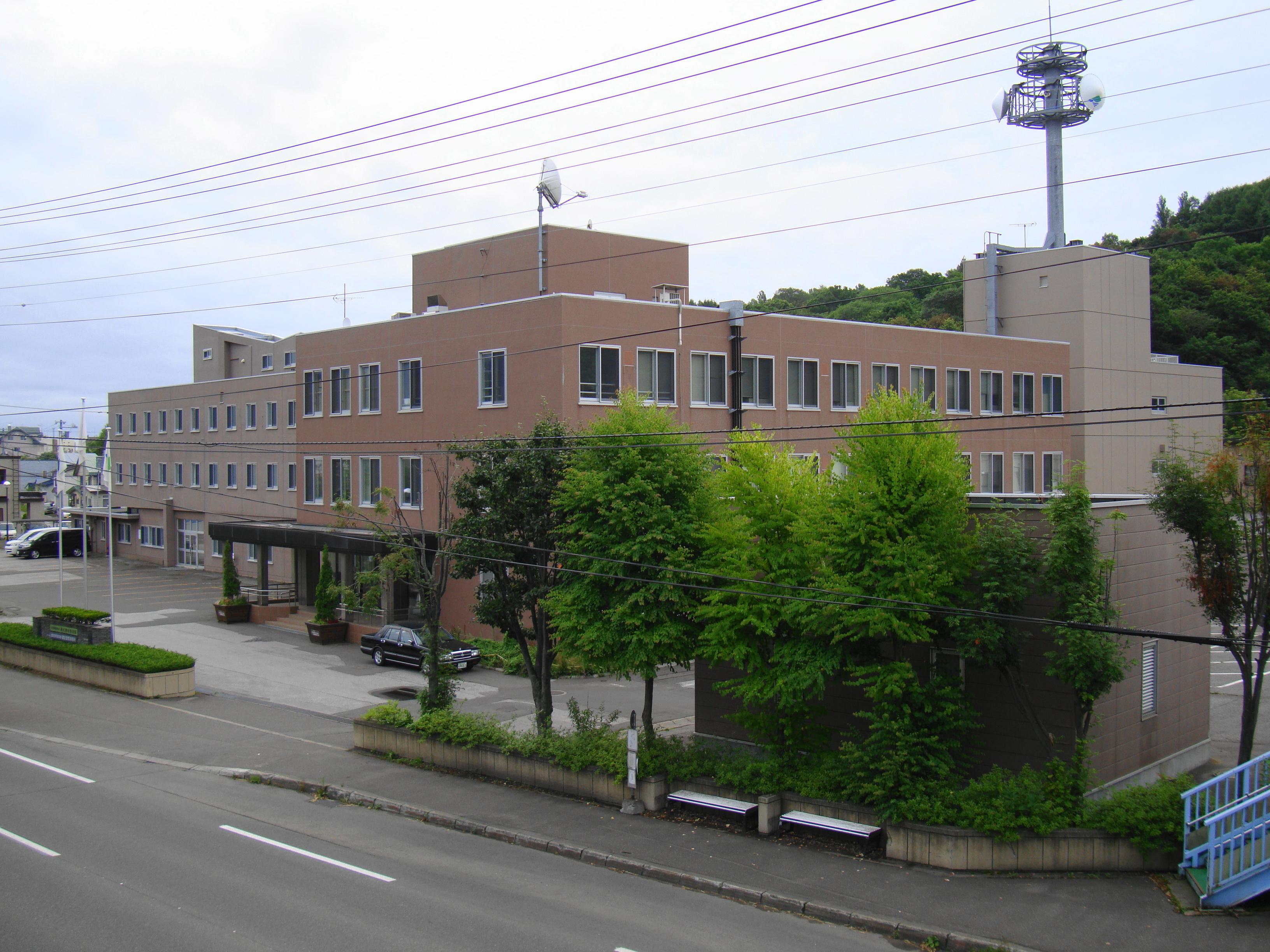 Abashiri Development and Construction Department